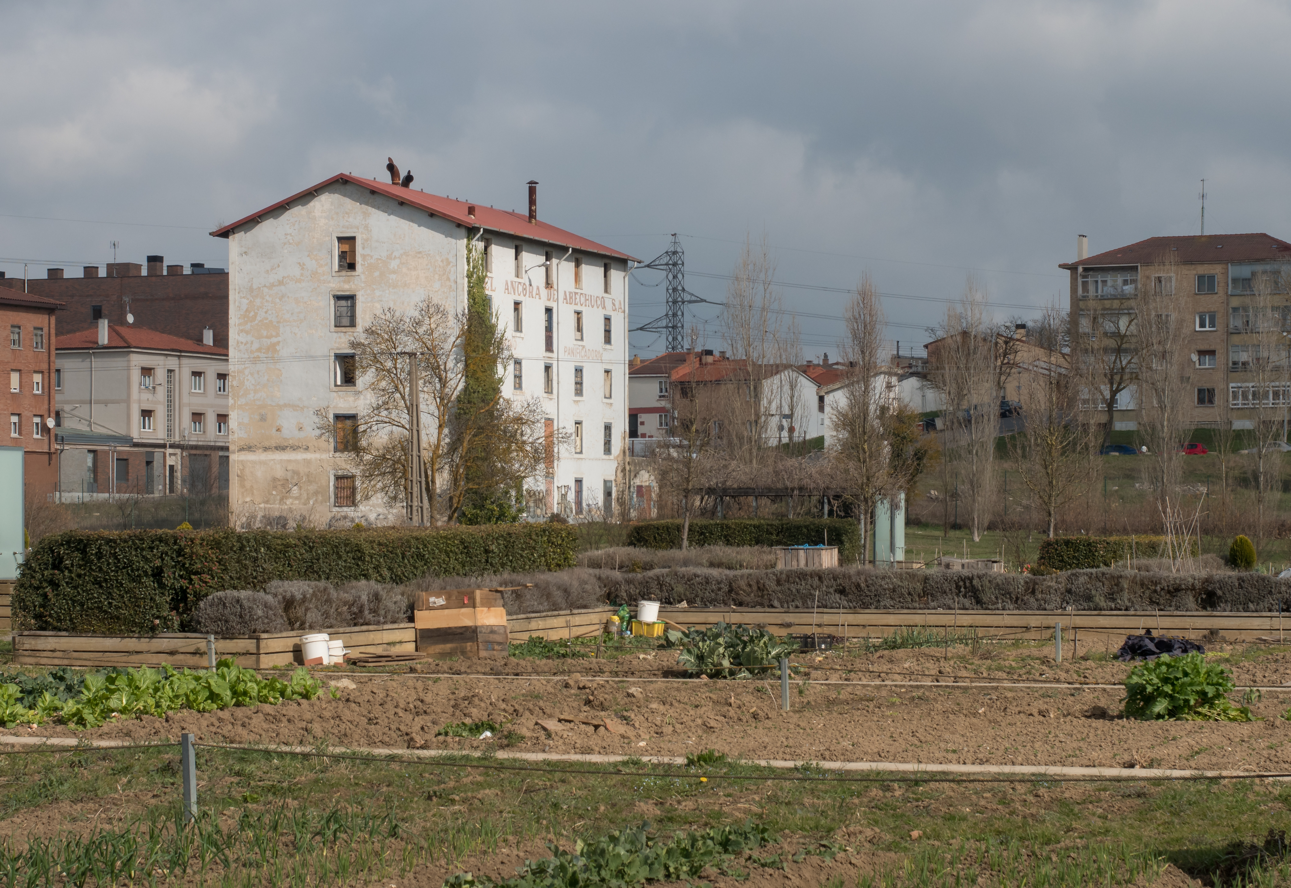 The Urarte Allotments in Abetxuko. In the back, the old abandoned building of the bakery "El Áncora de Abechuco". Vitoria-Gasteiz, Basque Country, Spain